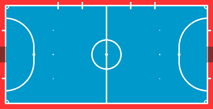 FIFA Futsal pitch